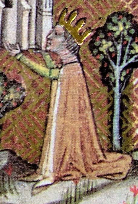 Giselle of Bavaria